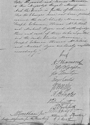 "Verdict and Sentence in the Court-Martial of the Bounty Mutineers"